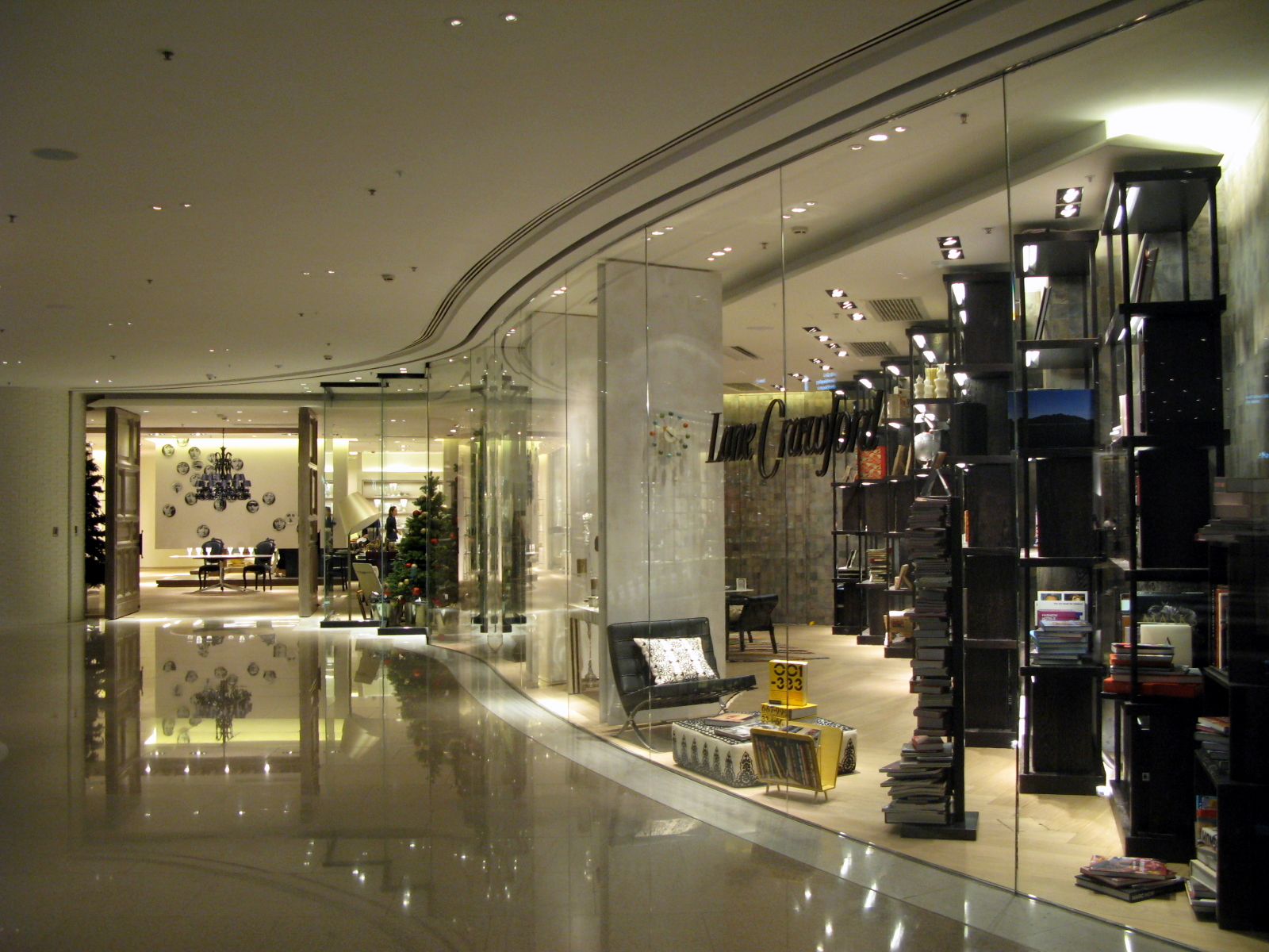 Lane Carford Pacific Place Home Store